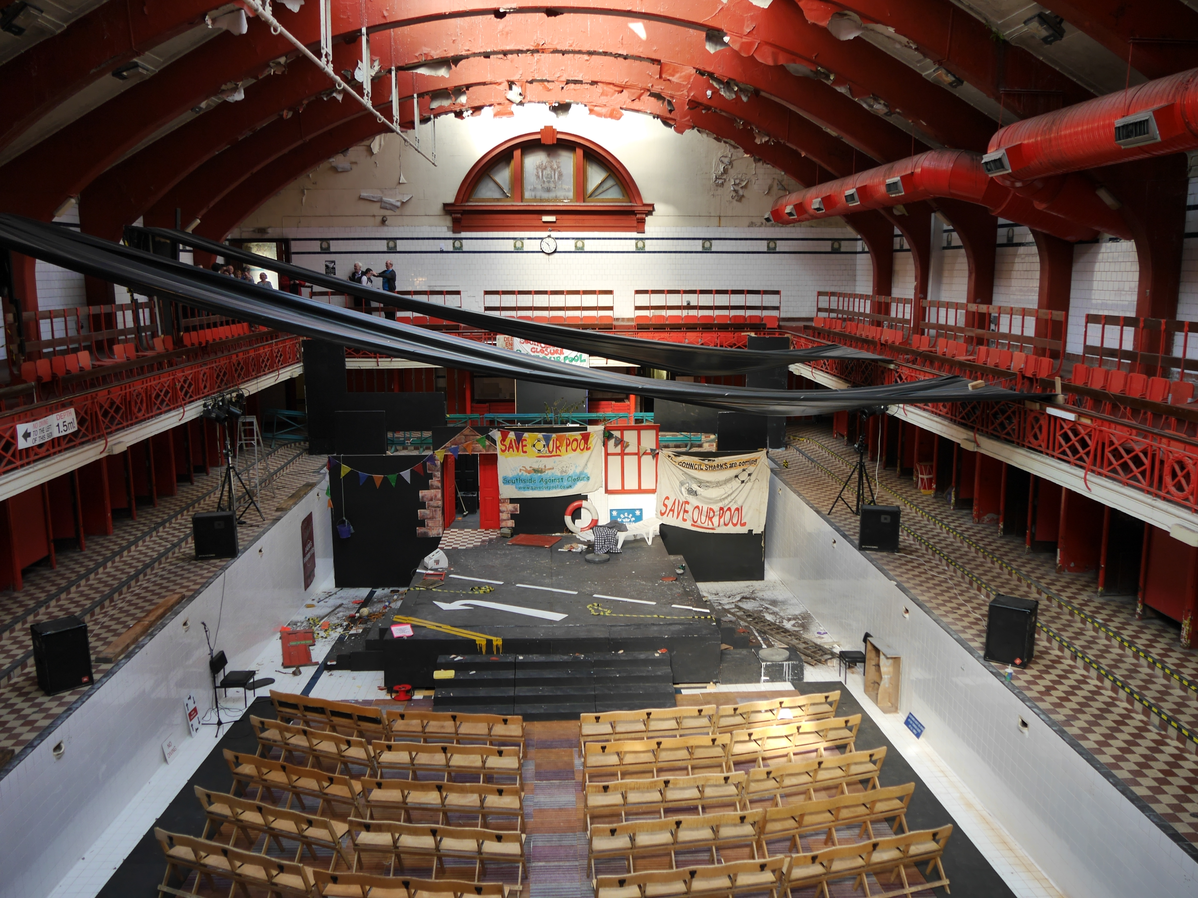 Govanhill Baths, Glasgow Wikidata has entry Q17812575 with data related to this building.